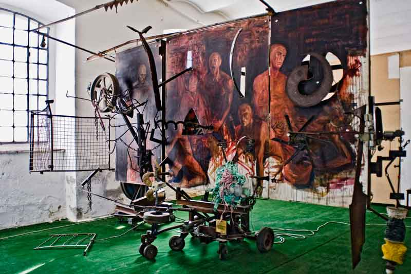 Collaboration with Jean Tinguely